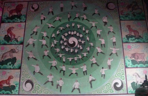 A painting on a wall in Chenjiagou, depicting forms from Chen-style taijiquan.